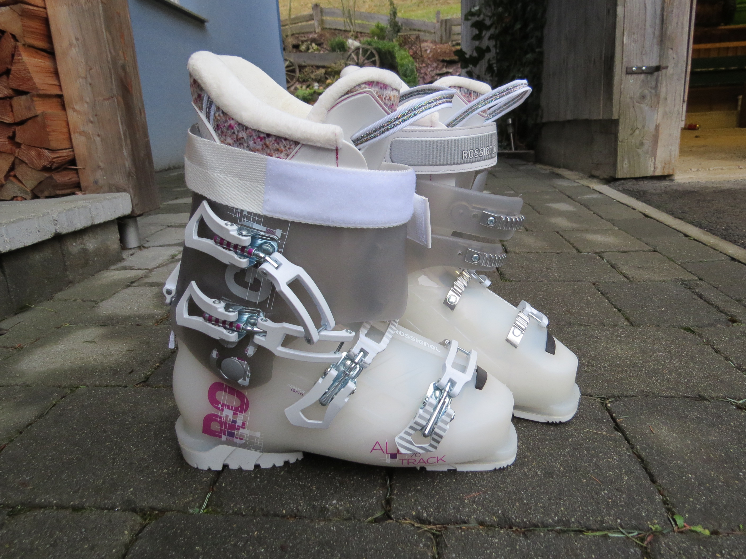 Rossignol Alltrack 70 ski boots